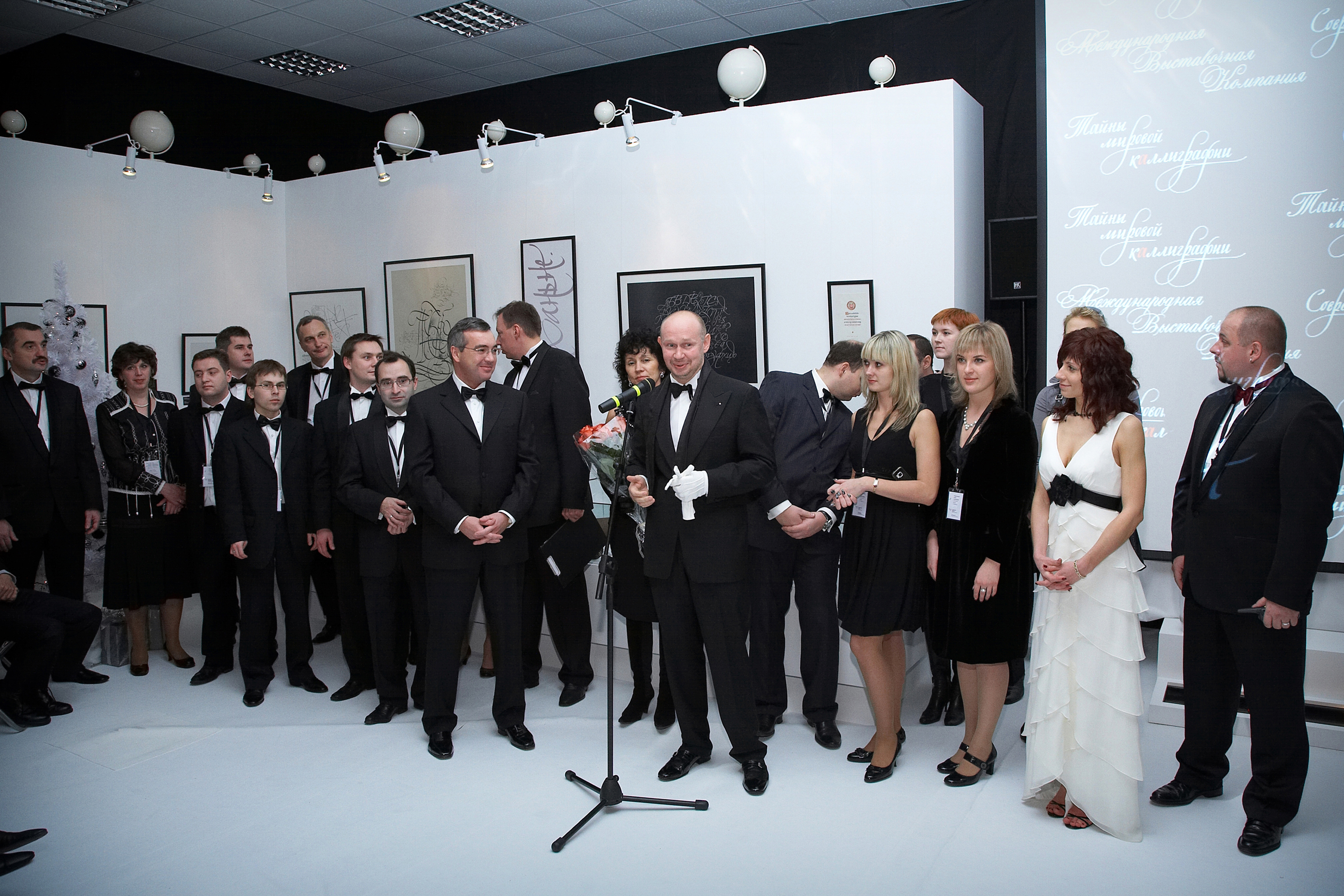 The photo is created in the Contemporary museum of calligraphy in Moscow